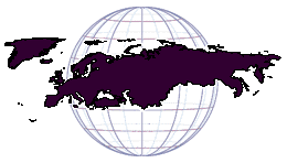 Seal of Bureau of European Affairs